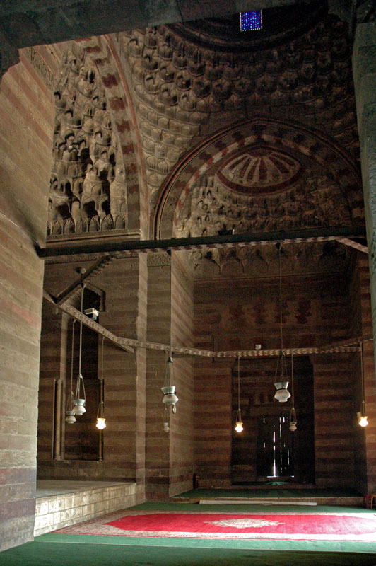 Mosque-Madrassa of Sultan Hassan. Cairo. Egypt